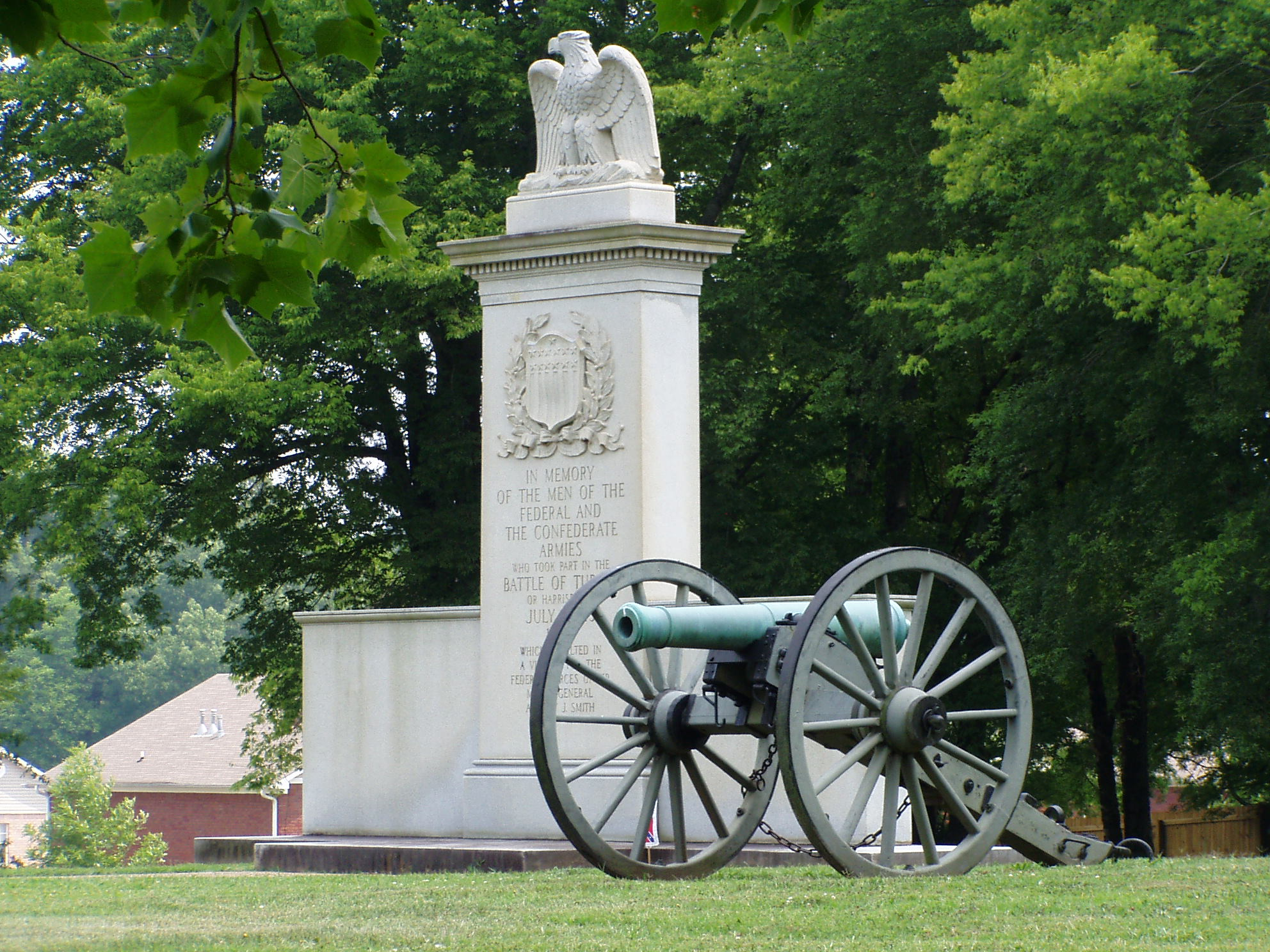 Battle of Tupelo Monument